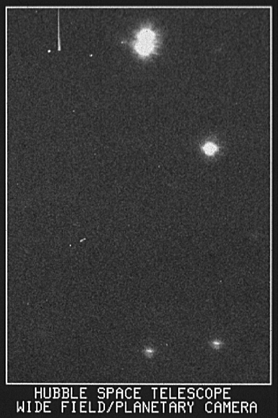 This image is part of the first image taken with NASA's Hubble Space Telescope's (HST) Wide Field/Planetary Camera. All objects seen are stars within open cluster NGC 3532 in the Milky Way galaxy. Stars pictured in the HST frame are sharper than ground telescope images and well resolved, as shown by the double star at the top of the image. By avoiding the Earth's atmosphere, the HST gives sharper images and better resolution. In this early engineering picture, the HST images are roughly 50 percent sharper than the ground-based images. Technical Details: The first image taken with the HST is intended to assist in focusing the telescope. The region observed is centered on the 8.2 magnitude star HD96755 in the open cluster NGC 3532, in the southern constellation Carina. Identical small subsections of the HST and ground-based image pictures were chosen to highlight the difference in resolution. The field shown is approximately 11 x 14 arcseconds in size and does not contain HD96755. The HST image is a thirty-second exposure taken by the Wide Field/Planetary Camera. The picture shown was extracted from the area observed by the WF-3 OCD using the F555W broadband filter. The measured width of star profiles (FWFM) gives a good indication of the angular resolution. The FWFM of the stars in the HST picture is about 0.8 arcseconds, compared to 1.1 arcseconds for normal ground telescopes, which points out the remarkable increase in resolution of the HST even at this early stage of the focusing task.